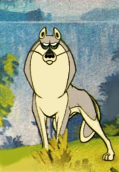 A scene from a Soviet Animation film Adventures of Mowgli on a Russian postal stamp, 2012